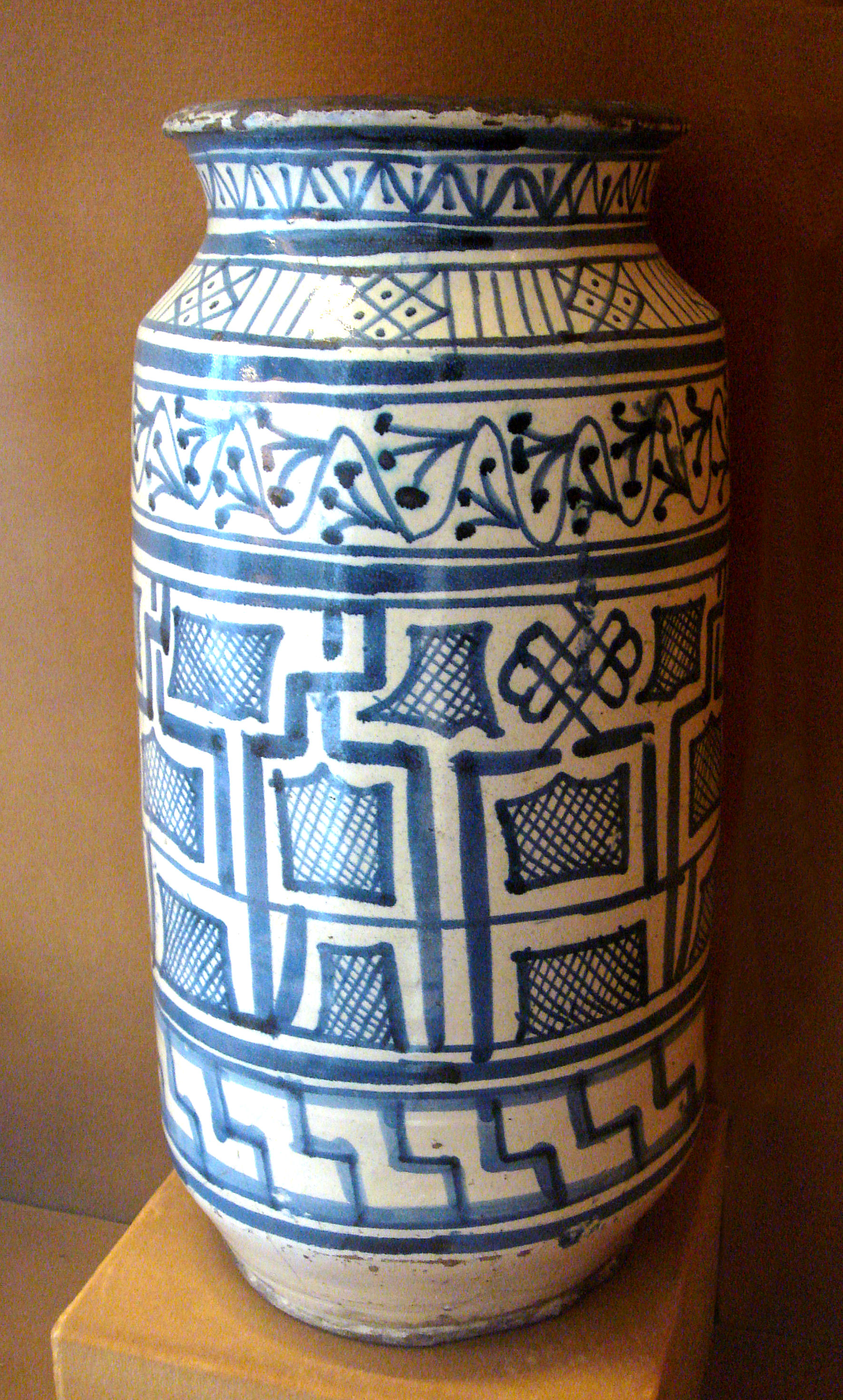 Blue_and_white_faience_albarello_with_designs_derived_from_Kufic_script_Toscane_2nd_half_15th_century.